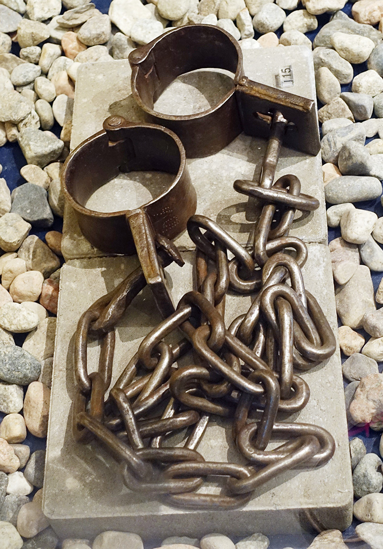 Leg cuffs in the Police Museum in Tampere, Finland.